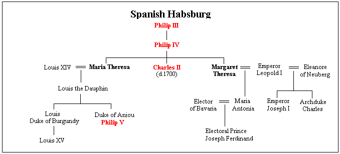 This is an original piece created by myself.